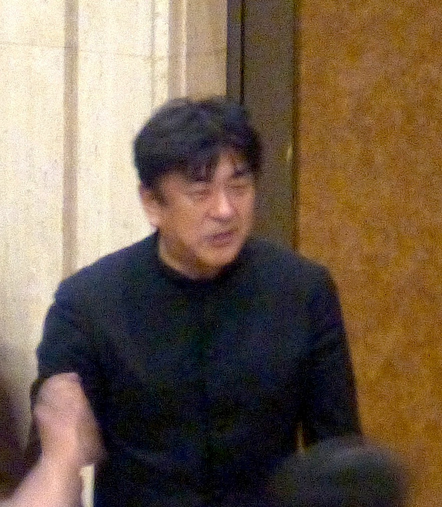 Yutaka Sado (佐渡 裕 Sado Yutaka, born 13 May 1961 in Kyoto) is a Japanese conductor.